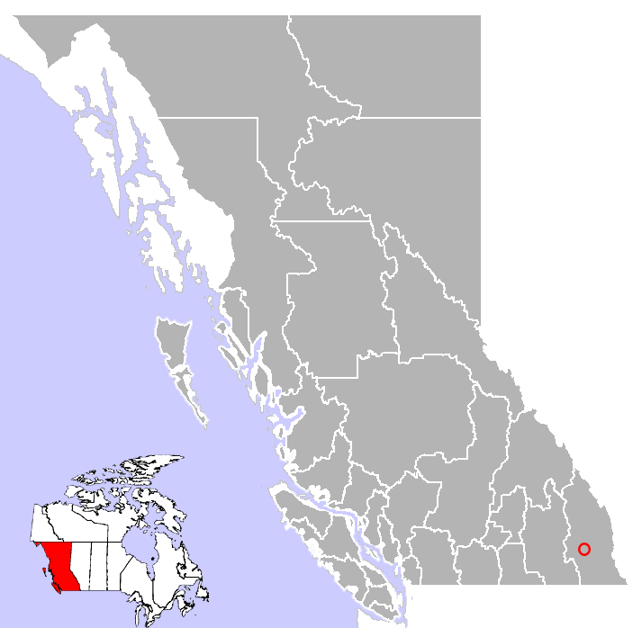 Kimberley, British Columbia location.